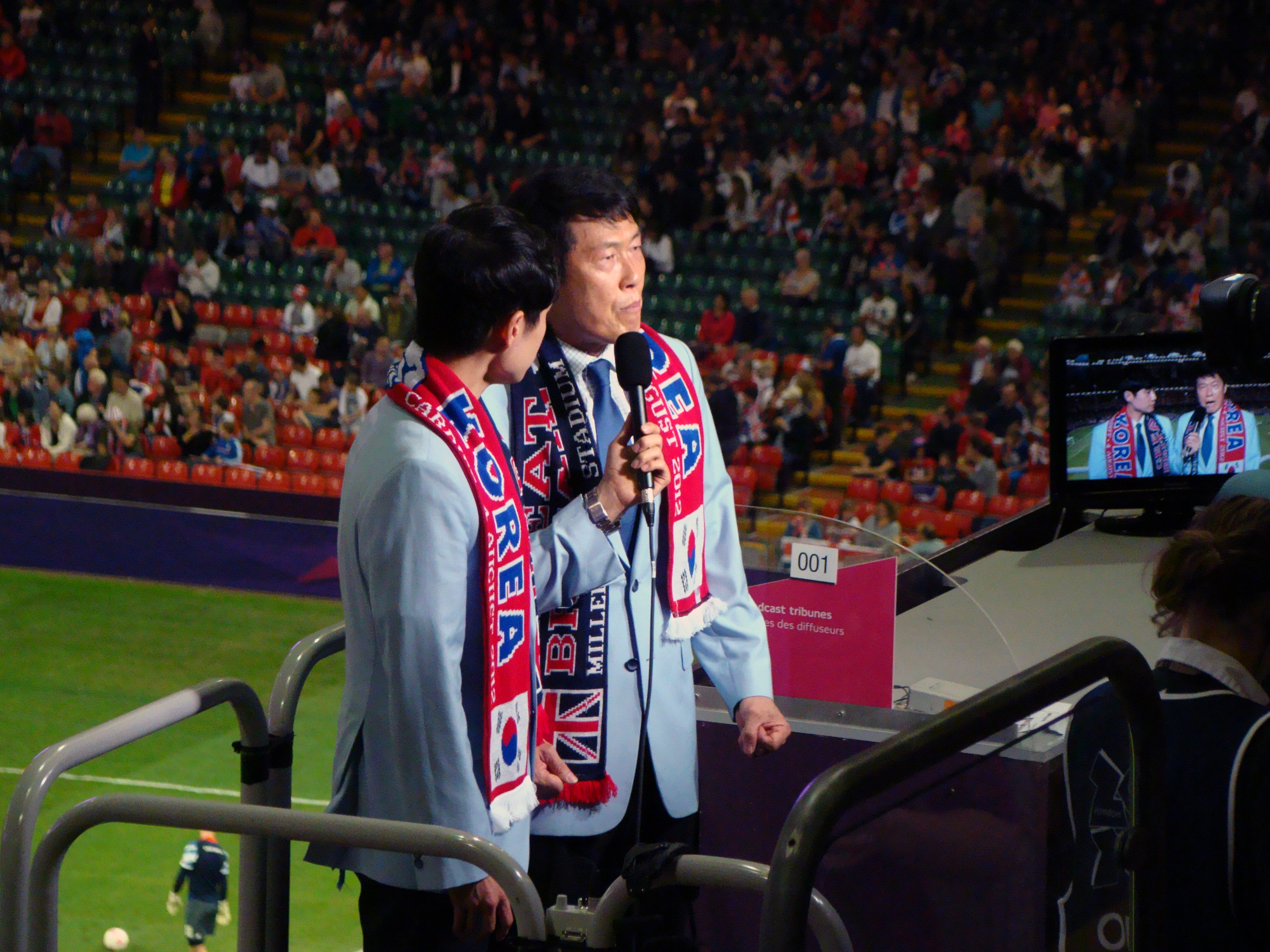 04/08/12 Great Britain v Korea Republic, Olympic Football, Millennium Stadium, Cardiff, Wales